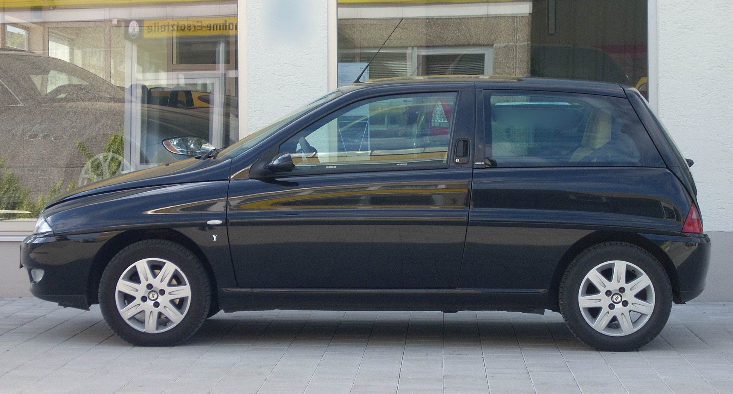 Lancia Y Cosmopolitan